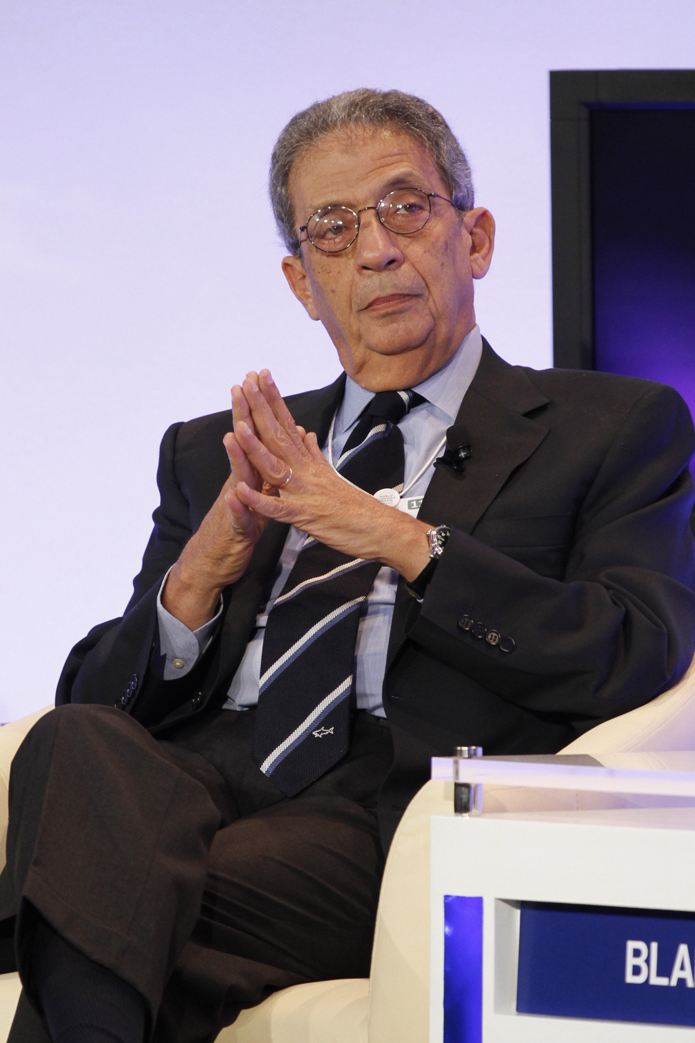 Amre Moussa an egyptian politician ,diplomat , the former Secretary-General of the Arab League and an Egyptian presidential candidate.